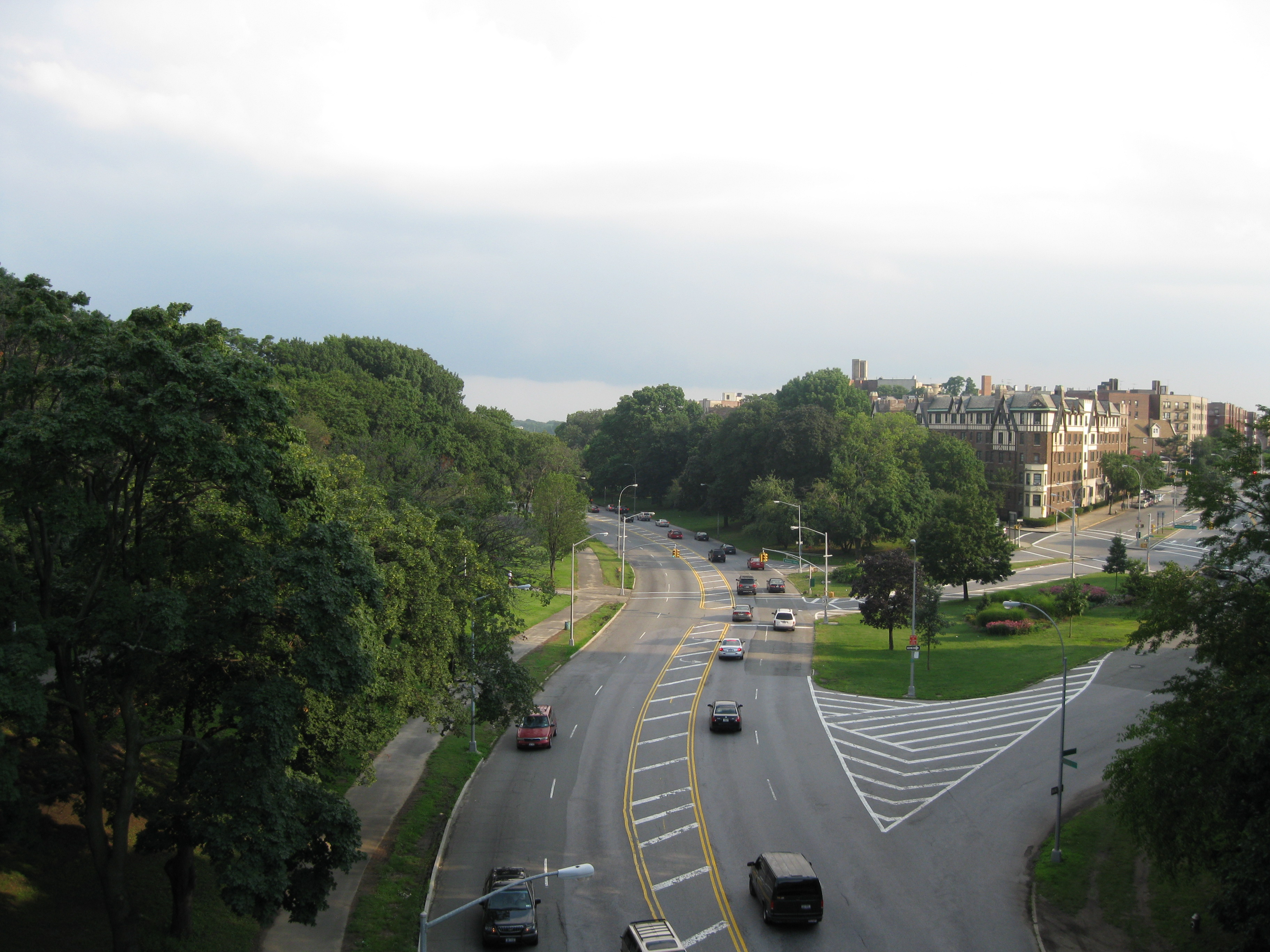 View of Mosholu Parkway in the Bronx, taken from the Mosholu Parkway stop on the number 4 train of the MTA subway.